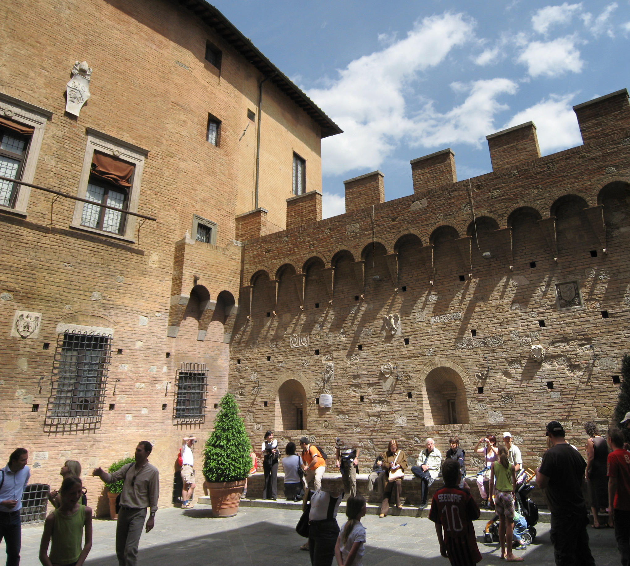 Palazzo Chigi Saracini.